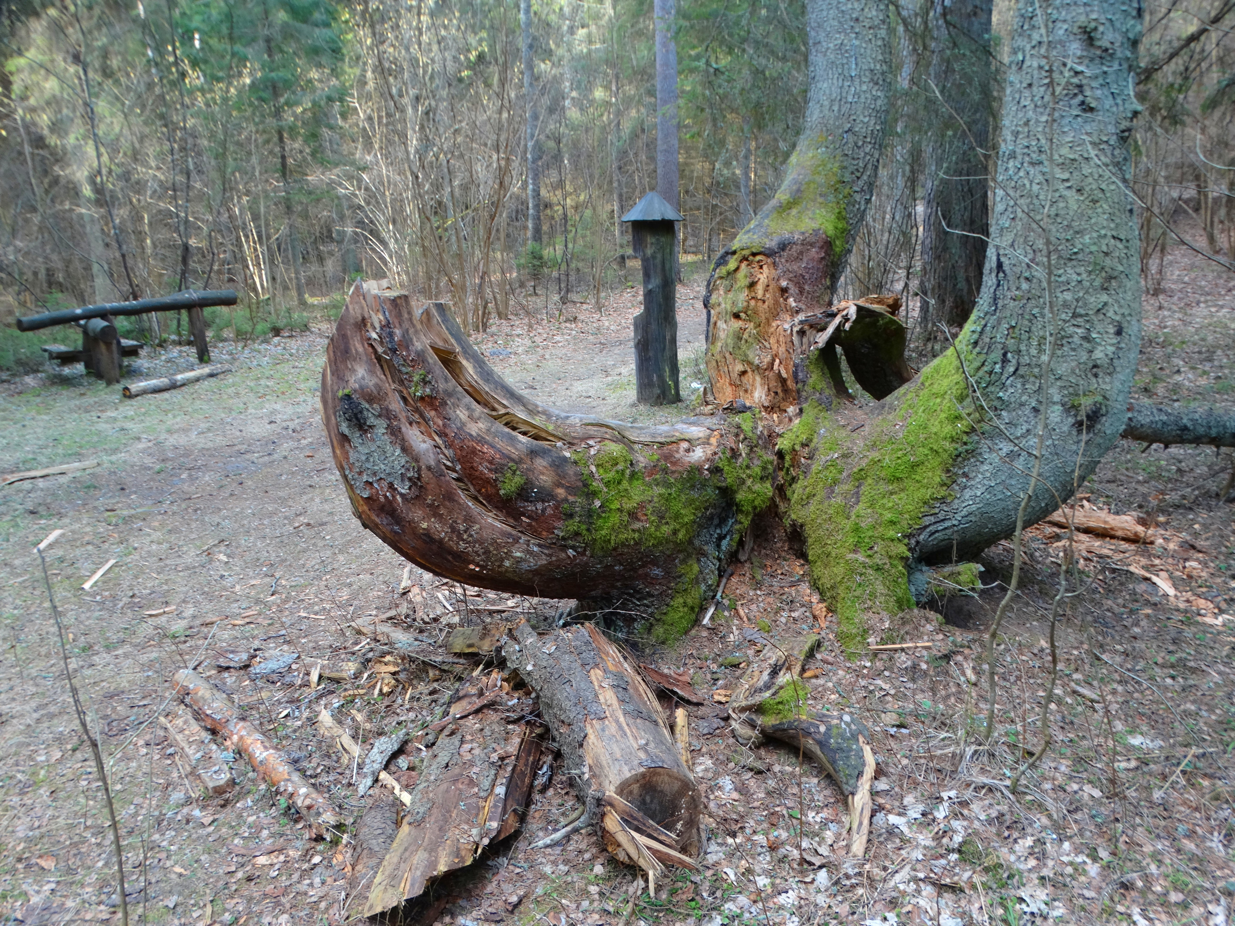 Spruce tree (formerly with 6 trunks), Bubiai, Šiauliai district, Lithuania